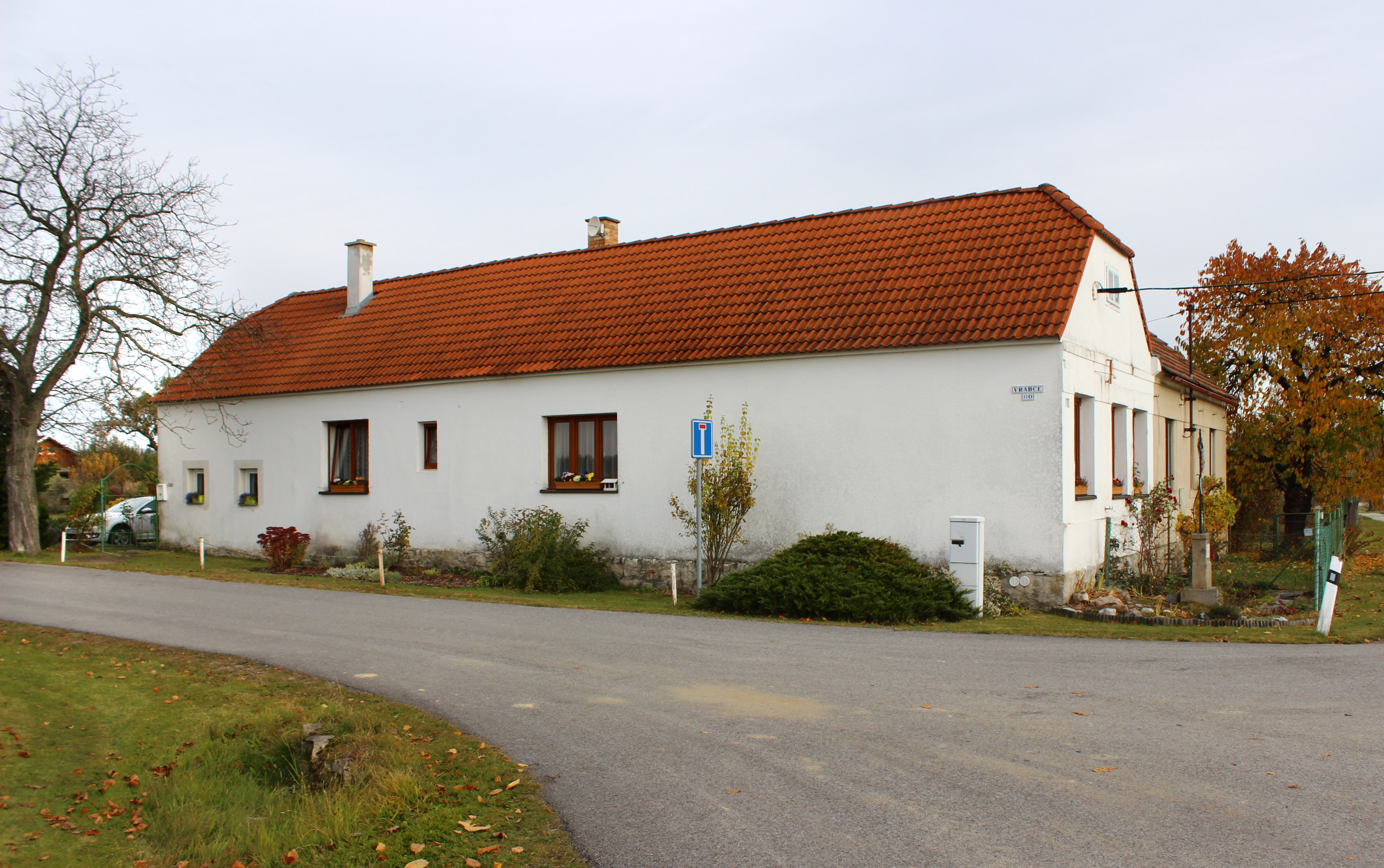 House No 110 in Koroseky, part of Vrábče, Czech Republic.